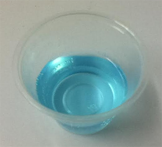 A 15 ml dose of Perichlor brand chlorhexidine glucamate medication.